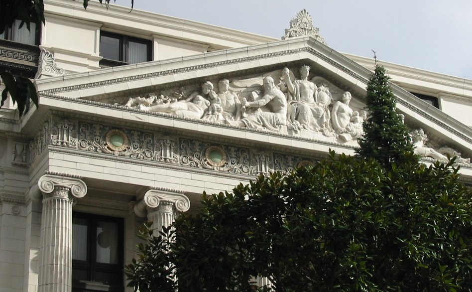 Detail of the tableau carved by Haig Patigian (1876-1950) in 1919 above the main entrance of the Metropolitan Life building (now the San Francisco Ritz Carlton hotel).